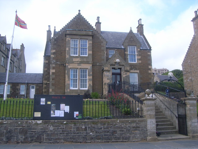 Stromness Town House with Orkney flag flying